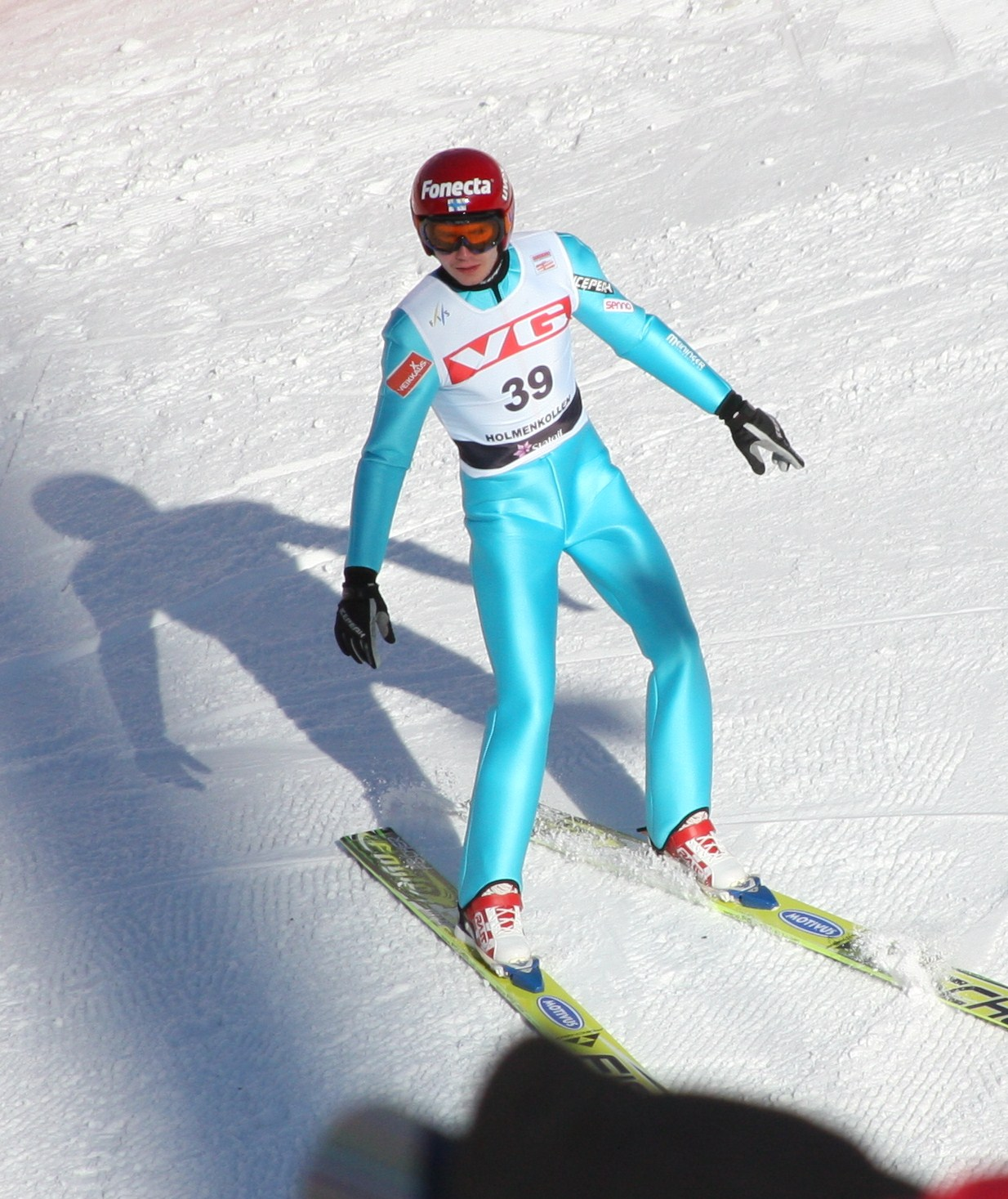 Harri Olli (FIN) in WC Oslo, Holmenkollen, 14 march 2010